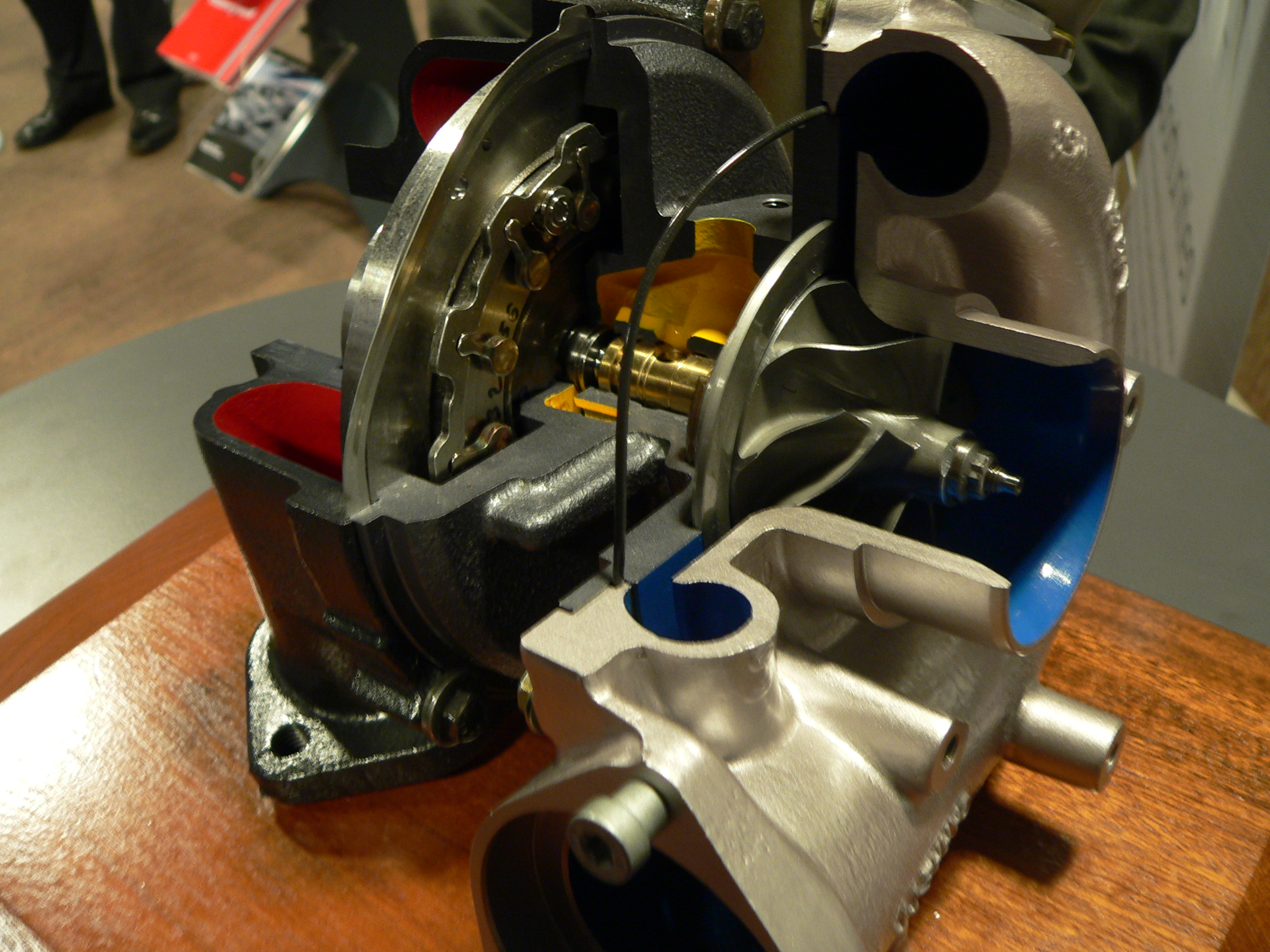 Model of a turbo. The interior is visible.